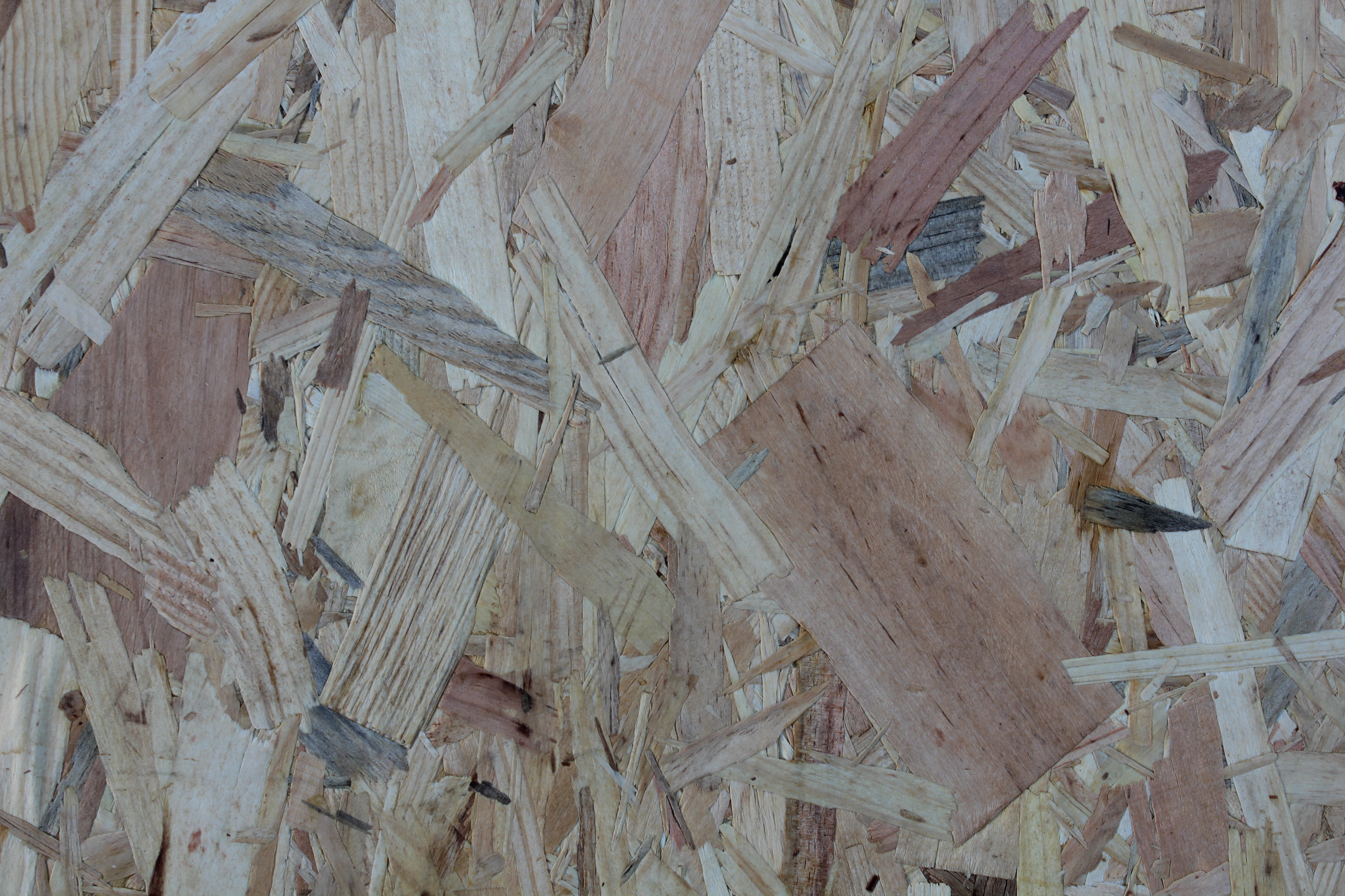 Close up of OSB plate.